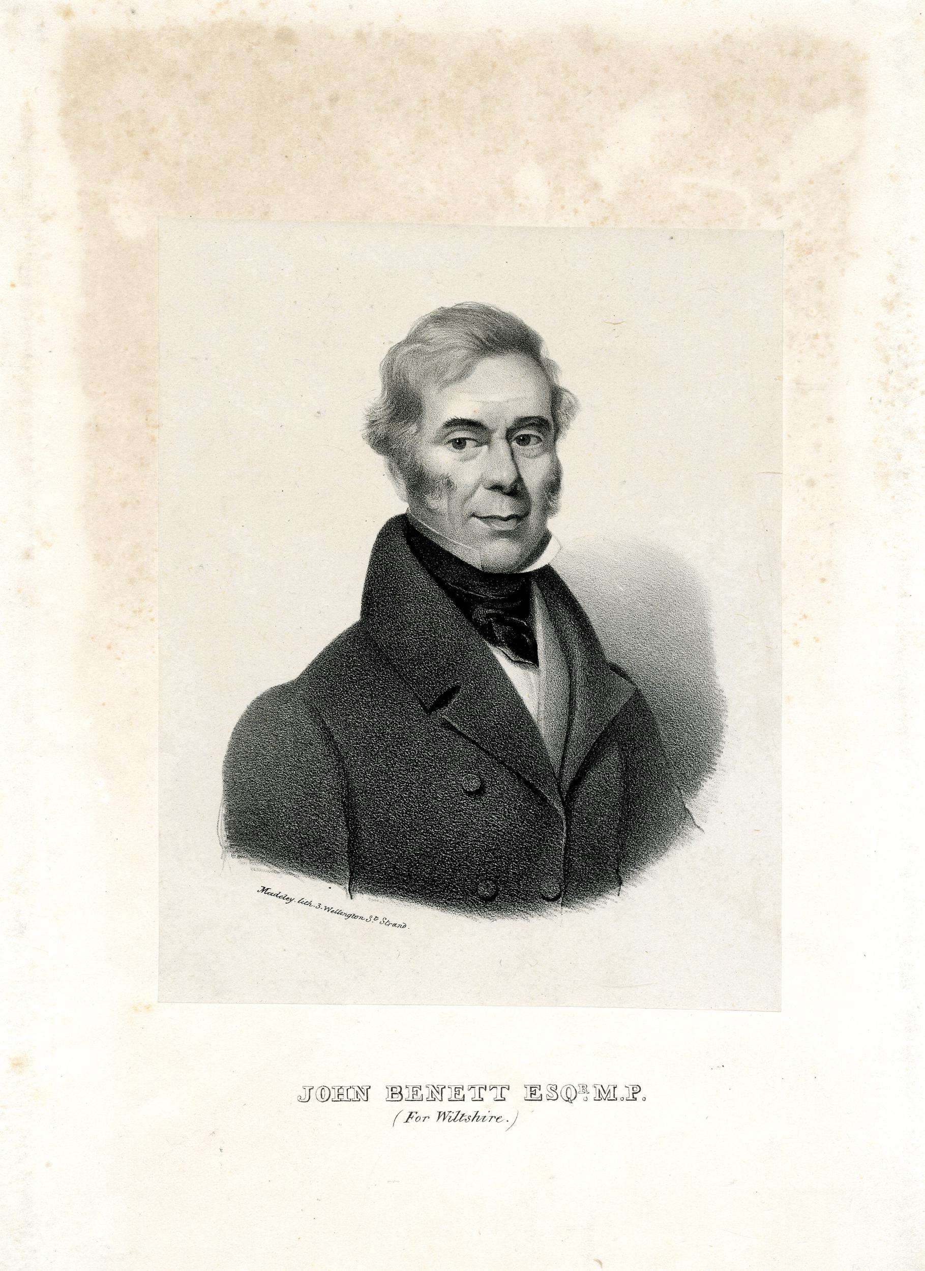 Portrait of John Bennett, bust-length, turned to right, wearing a jacket and cravat Lithograph on chine collé